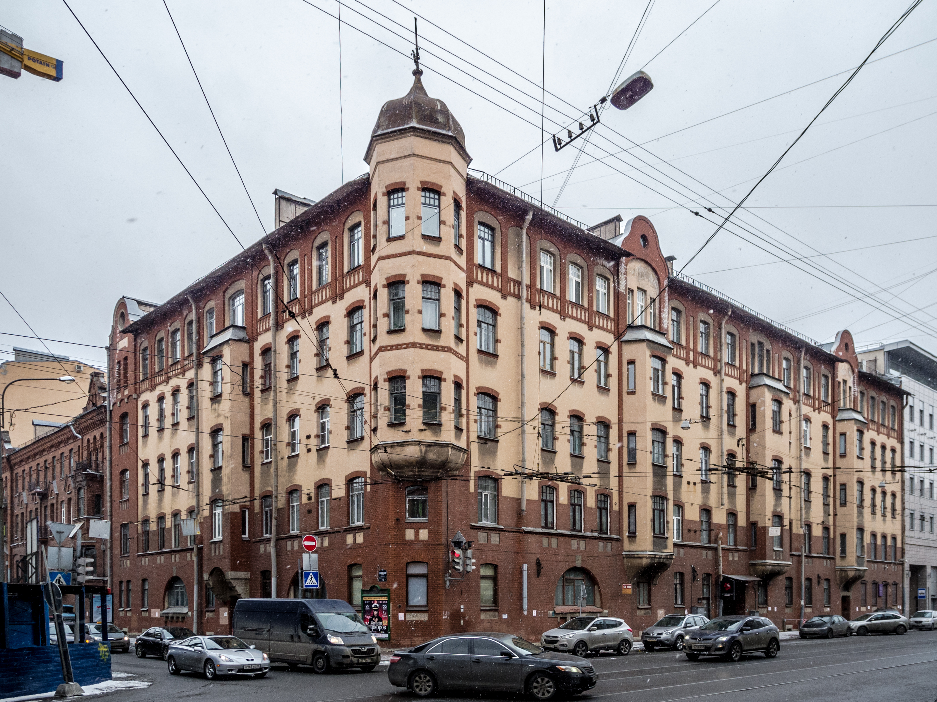 8, Dobroljubova avenue, Saint Petersburg